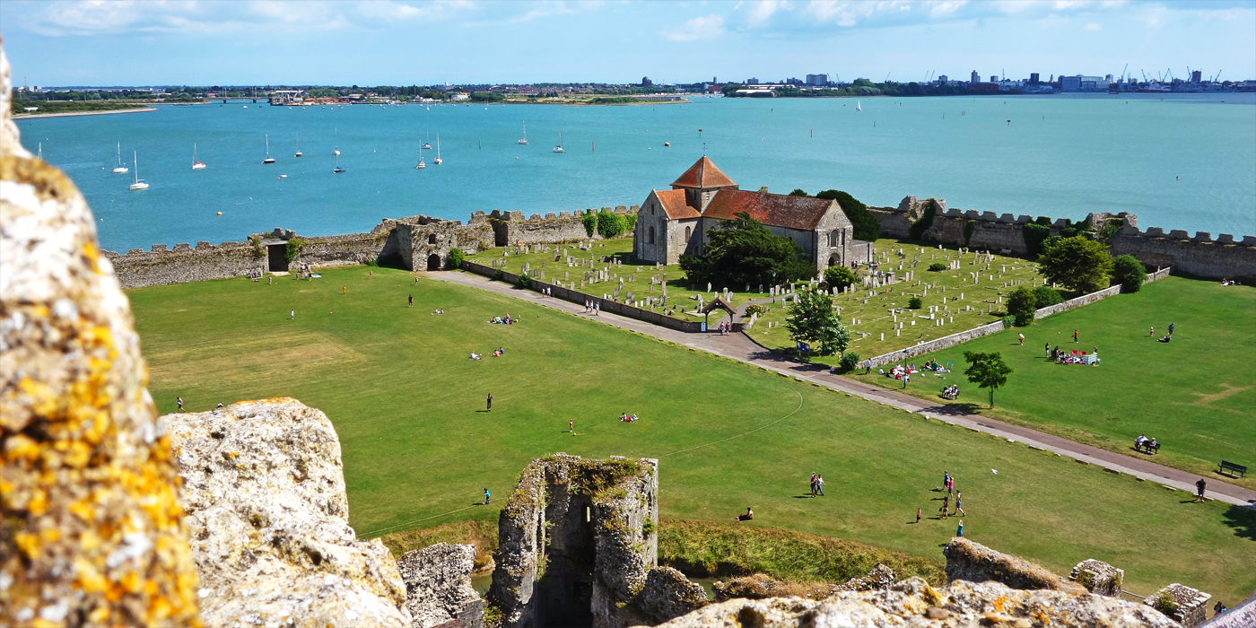 PORTCHESTER CASTLE Wikidata has entry Q5179634 with data related to this building.